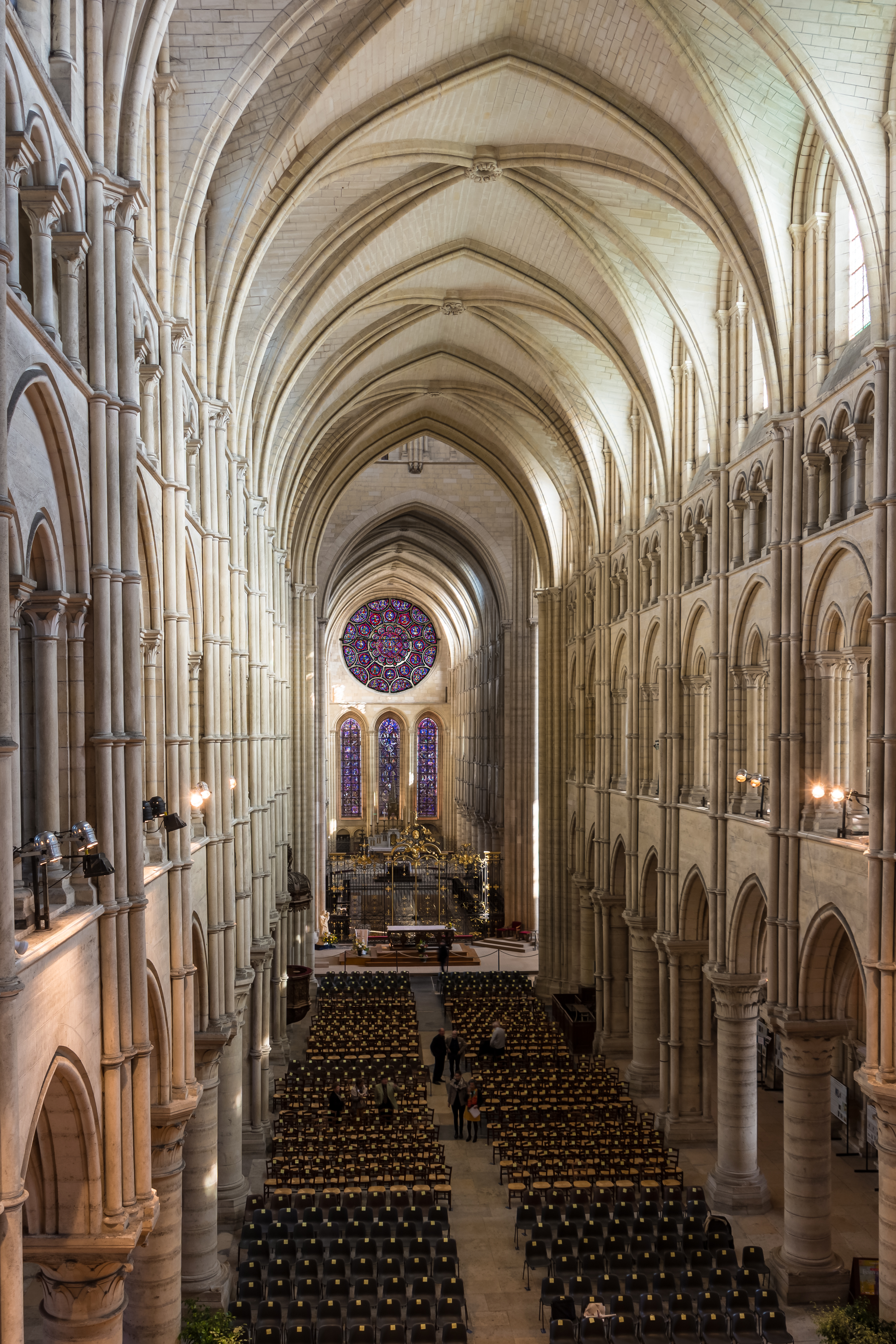 Interior of Laon Cathedral Notre-Dame, Picardy, France